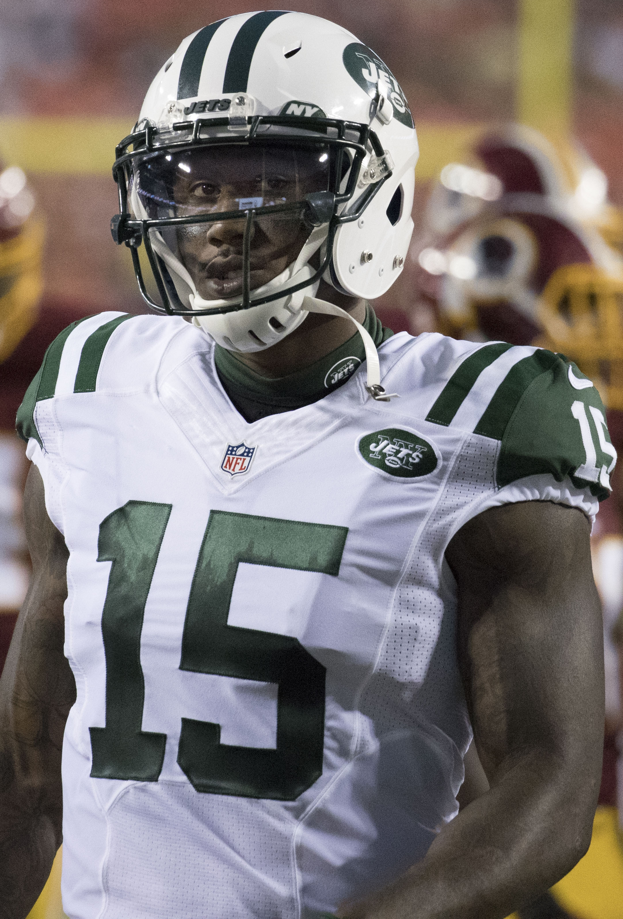 Brandon Marshall, a player on the National Football League.